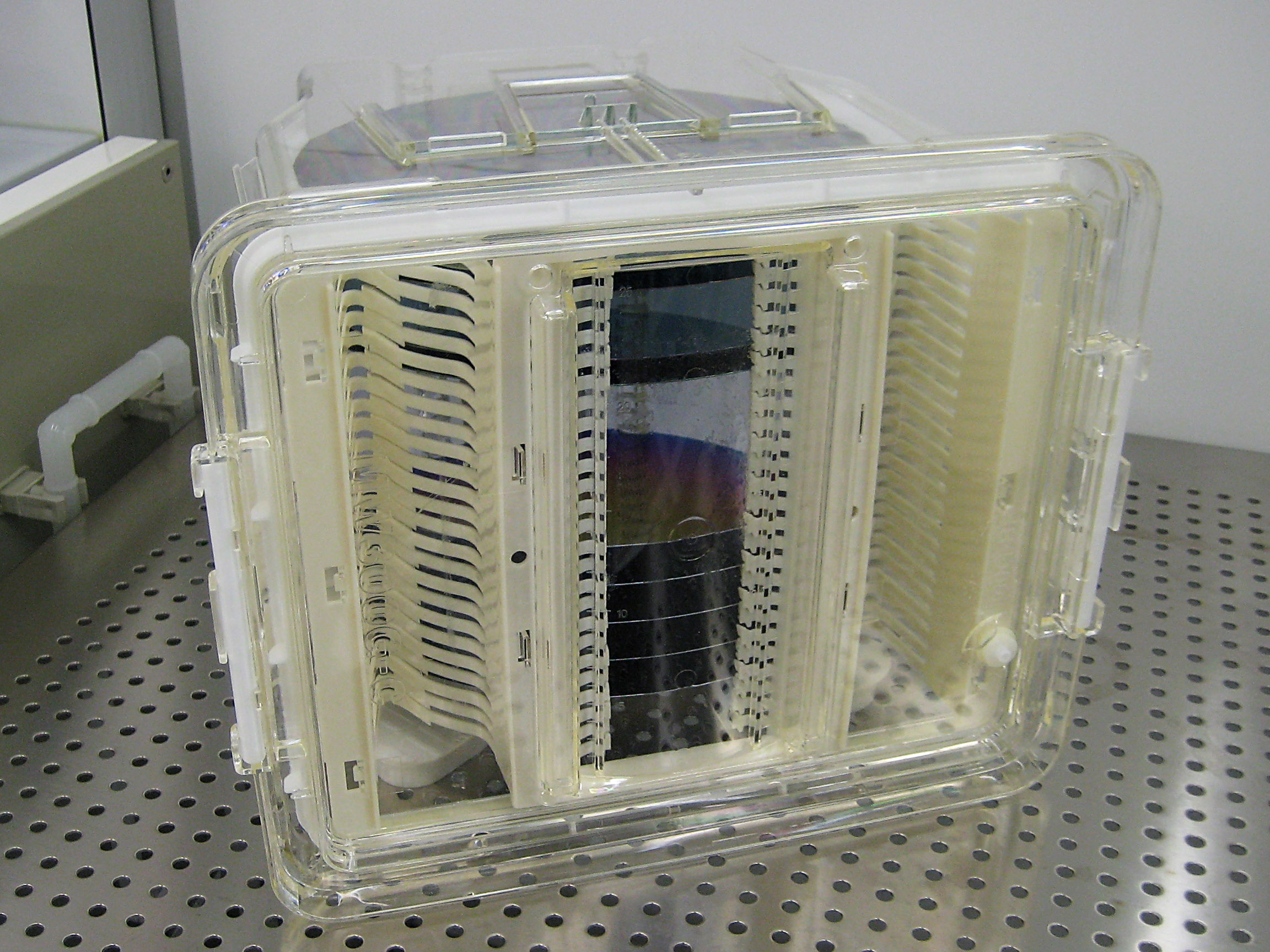 View on the front side of a front opening shipping box (FOSB). The FOSB as offers space for up to 25 300 nm wafers (8 places of box are occupied by different 300 nm silicon wafers)